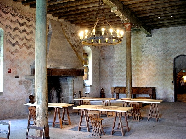 Chillon